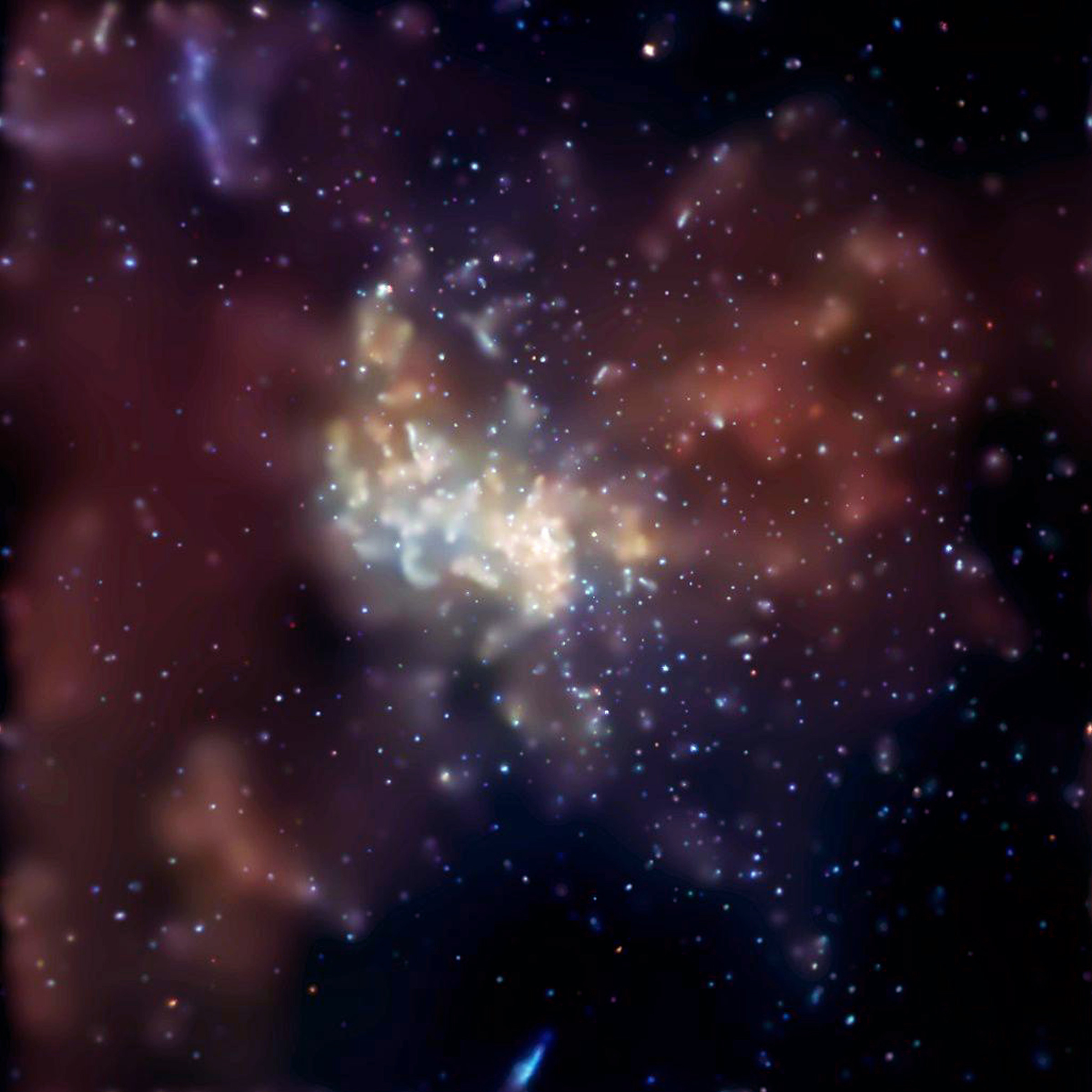 This Chandra image of Sgr A* and the surrounding region was made from a 164 hours of observation time over a two-week period. During this time the black hole flared up in X-ray intensity half a dozen or more times. The cause of these outbursts is not understood, but the rapidity with which they rise and fall indicates that they are occurring near the event horizon, or point of no return, around the black hole. Also discovered were more than two thousand other X-ray sources and huge lobes of 20 million-degree Centigrade gas (the red loops in the image at approximately the 2 o'clock and 7 o'clock positions). The lobes indicate that enormous explosions occurred near the black hole several times over the last ten thousand years.